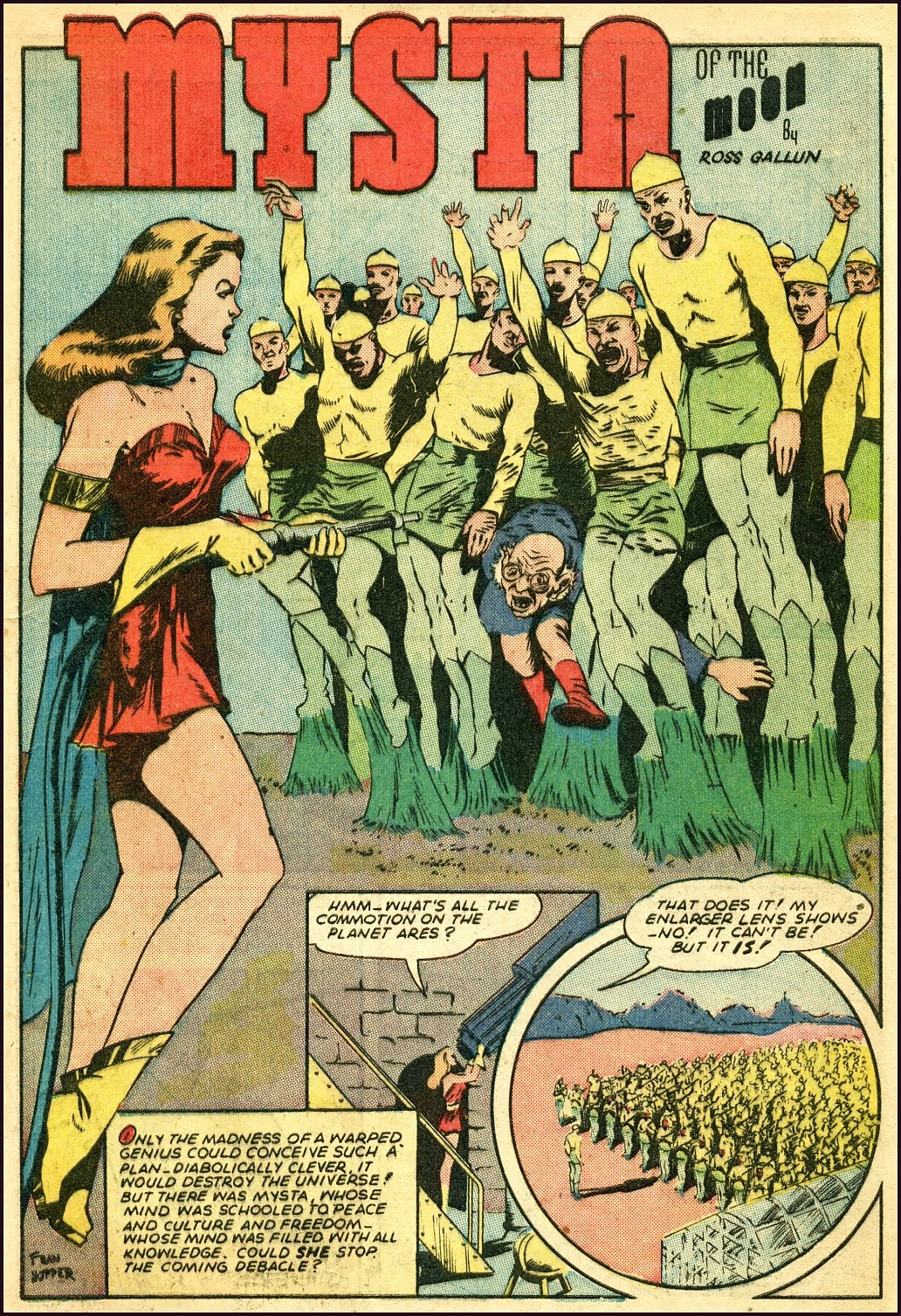 Mysta of the Moon splash page, Planet Comics #37 (July 1945), signed illustration by Fran Hopper